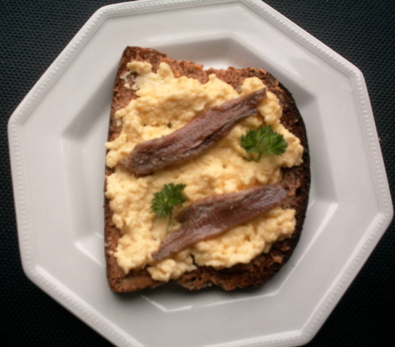 Scotch Woodcock. A traditional Scottish food made with creamy scrambled eggs on toast spread with anchovy paste. This portion is garnished with parsley and anchovy fillets.